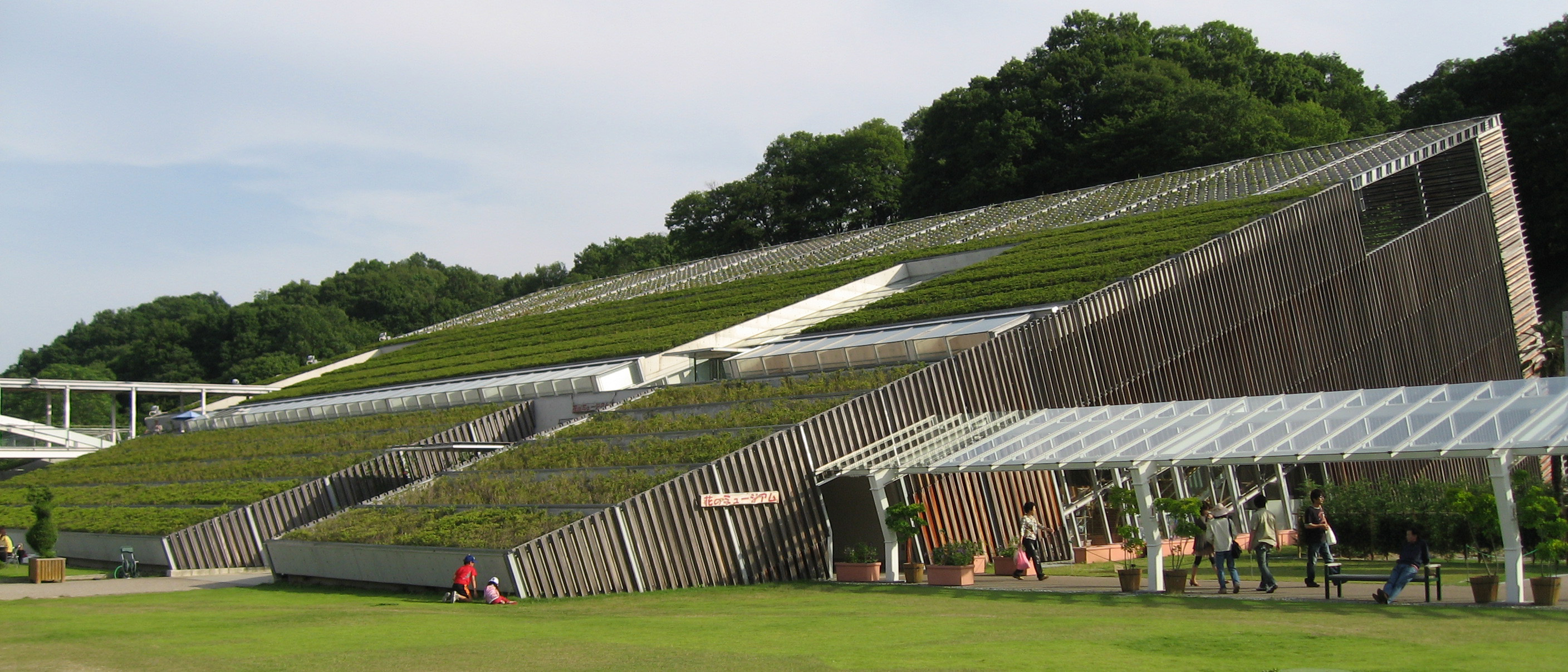 "Hana no Museum" (Museum of Flowers), Flower Festival Commemorative Park Seta Kani, Gifu Japan.